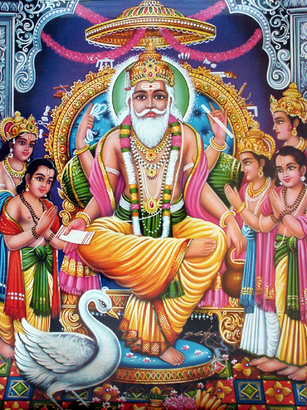 Vishwakarma Community, Mumbai